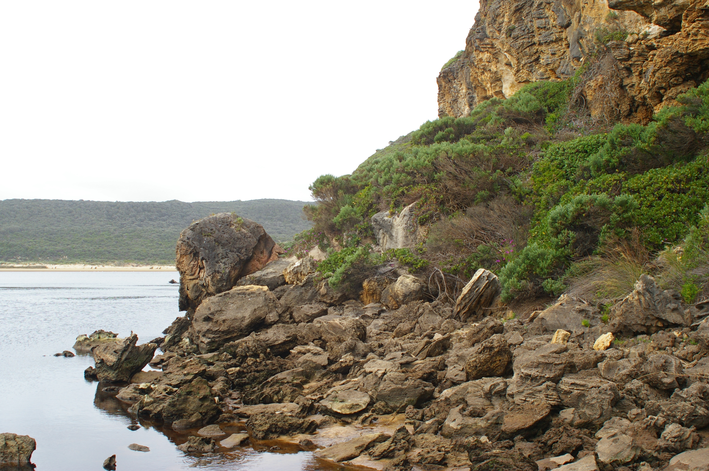 Photo taken at the mouth of the Donnelly River on Sandbar looking back up river with limestone cliff